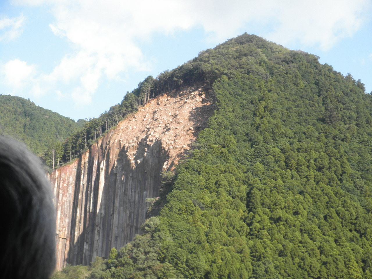 Deep-seated landslide on mountain in Sehara, Kihō, beside of Kumano river between Wakayama and Mie Japan caused by torrential rain of Tropical Storm Talas (2011)